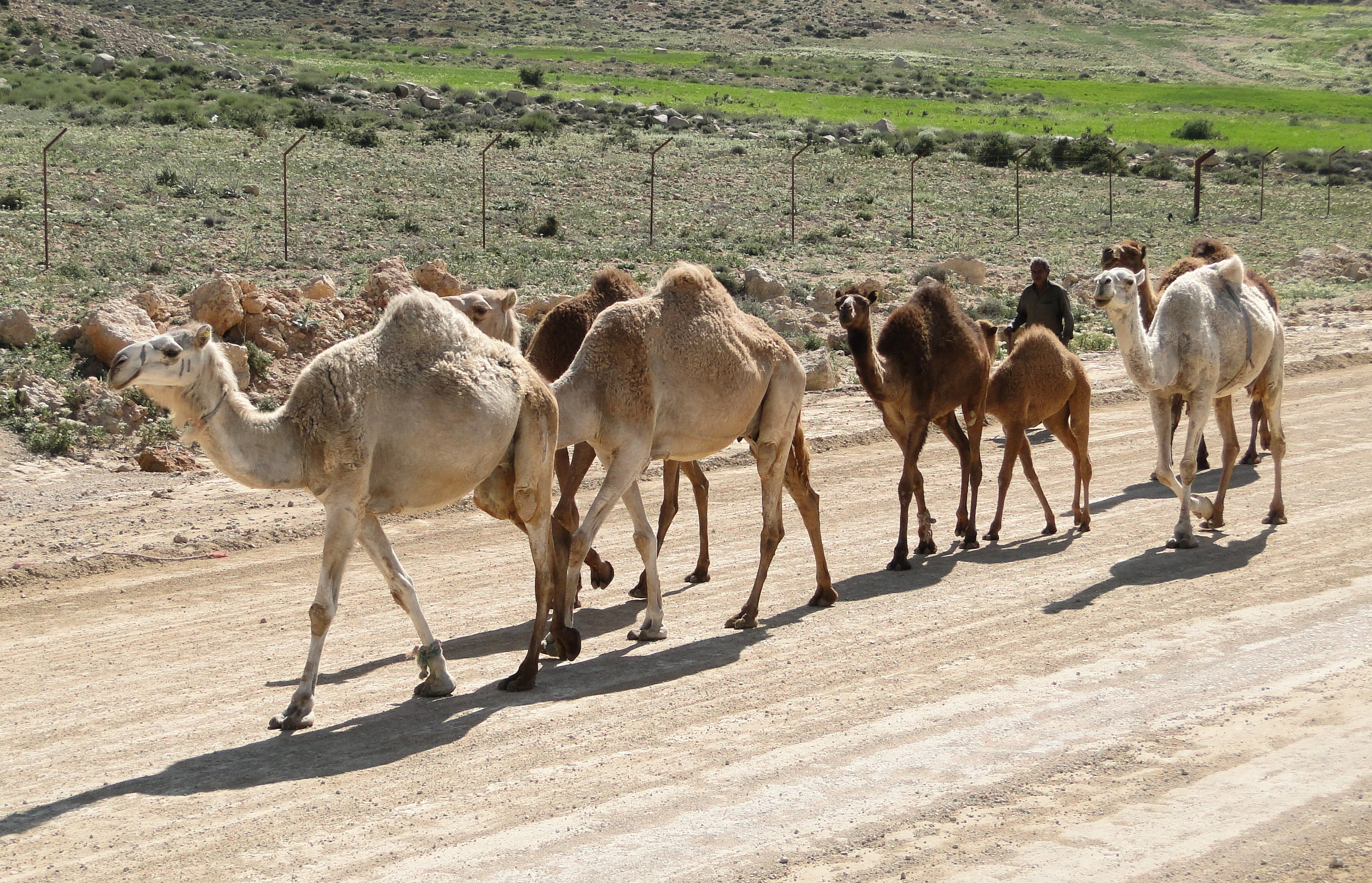 Dromaderies in Dana Biosphere Reserve, Jordan